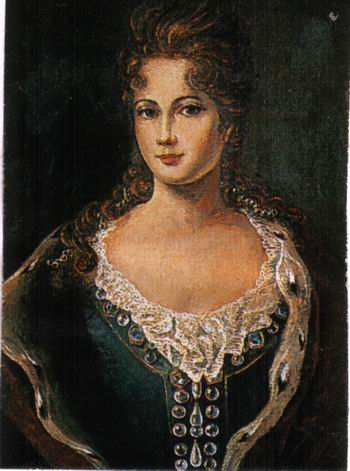 Sophia Louise of Mecklenburg-Schwerin, the third spouse of Frederick I of Prussia